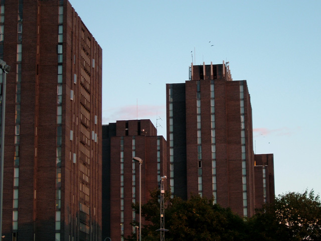 Wivenhoe Park (University of Essex Buildings) The central block in the photo carries (I believe) the transmitting aerials for local station SGR Colchester. The block in the foreground carries transmitting aerials for a low power TV relay covering parts of Colchester (out of shot).